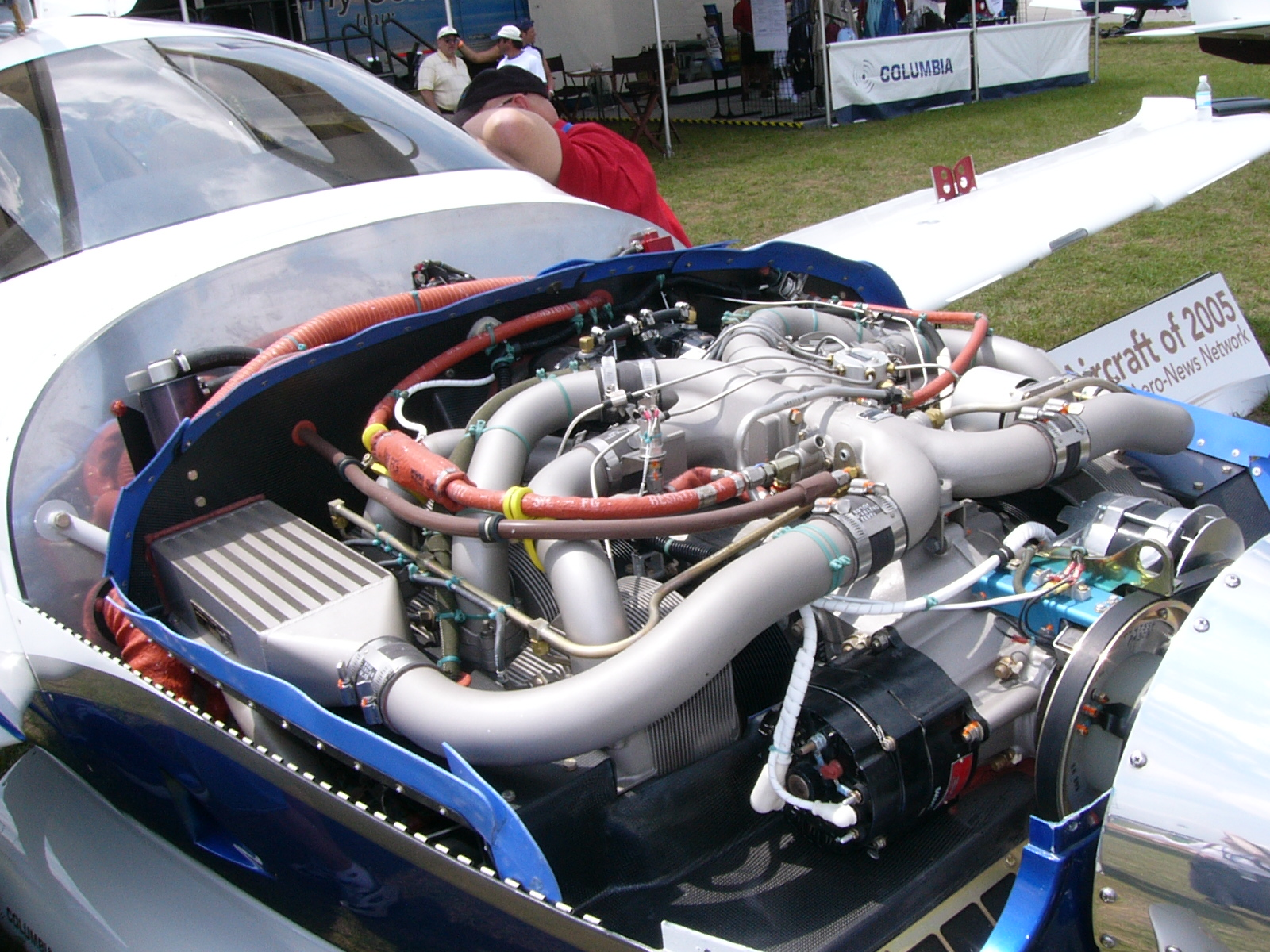 I took this photo of the Continental TSIO-550-C engine installation in a Columbia 400 on April 4, 2006 at Sun 'n Fun in Lakeland, Florida.